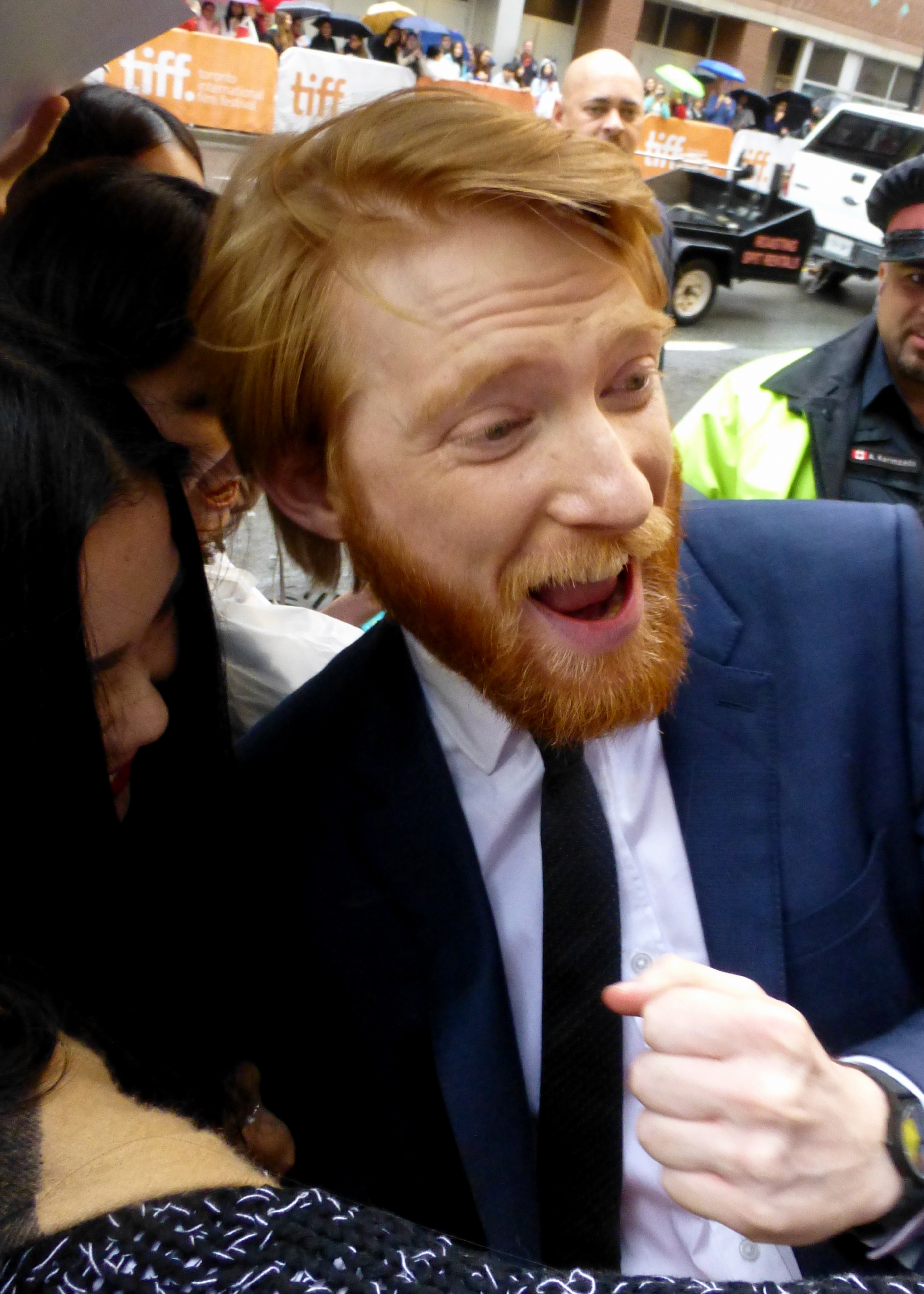 Domhnall Gleeson at the premiere of Brooklyn, 2015 Toronto Film Festival